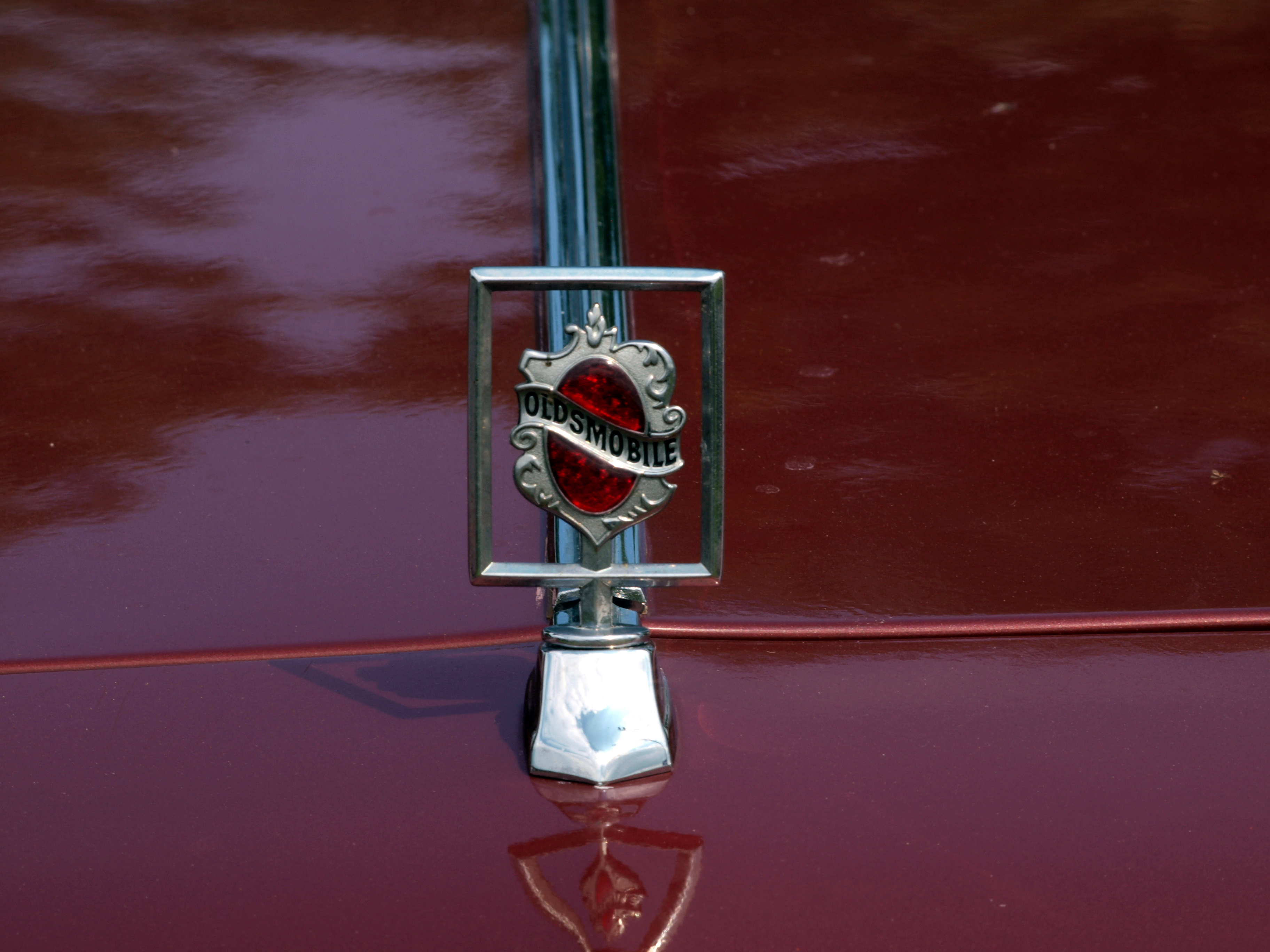 Photographed at the 2010 Autotron Classic car meeting, Rosmalen, The Netherlands. OLYMPUS DIGITAL CAMERA